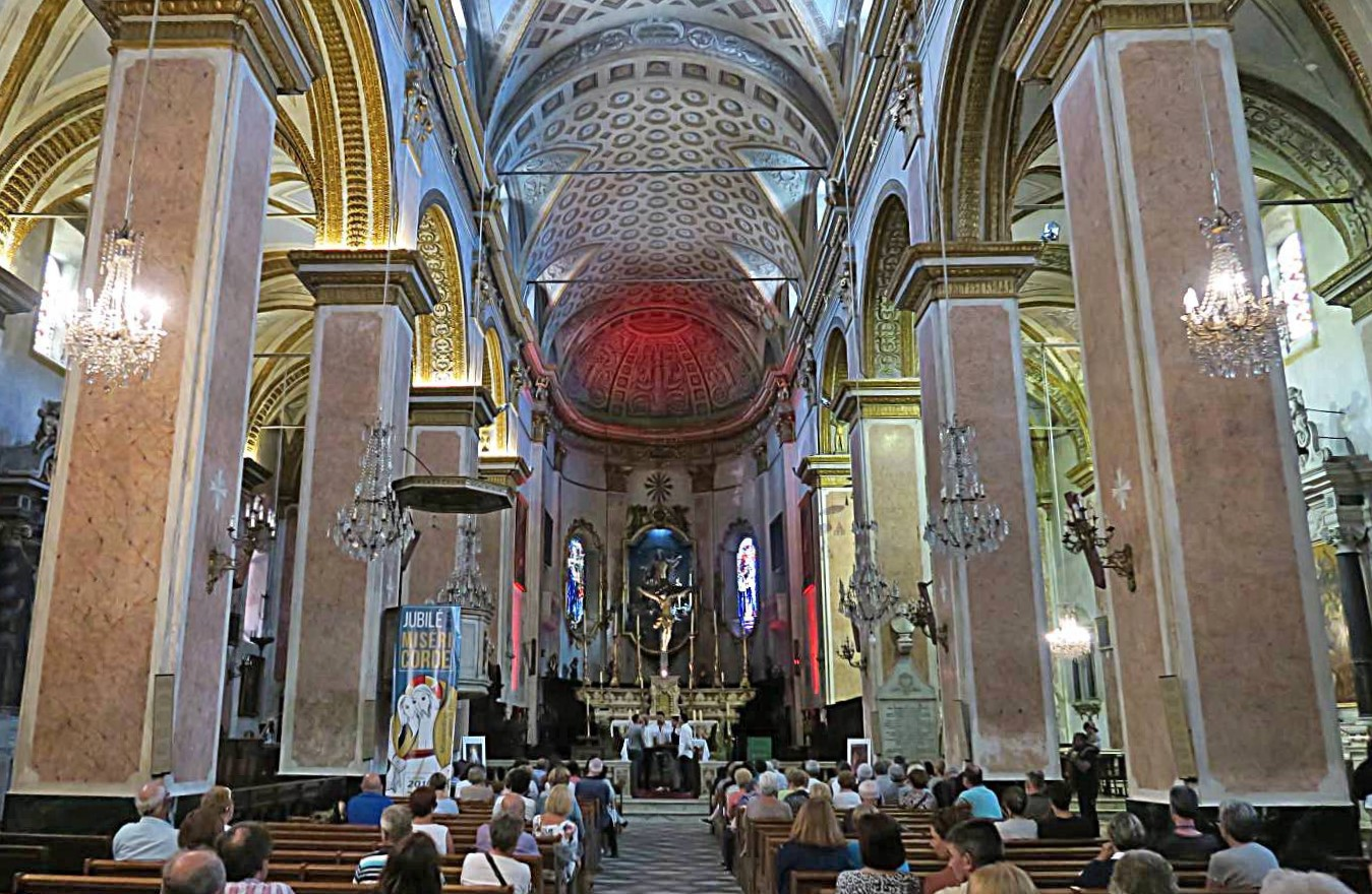 City of Bastia